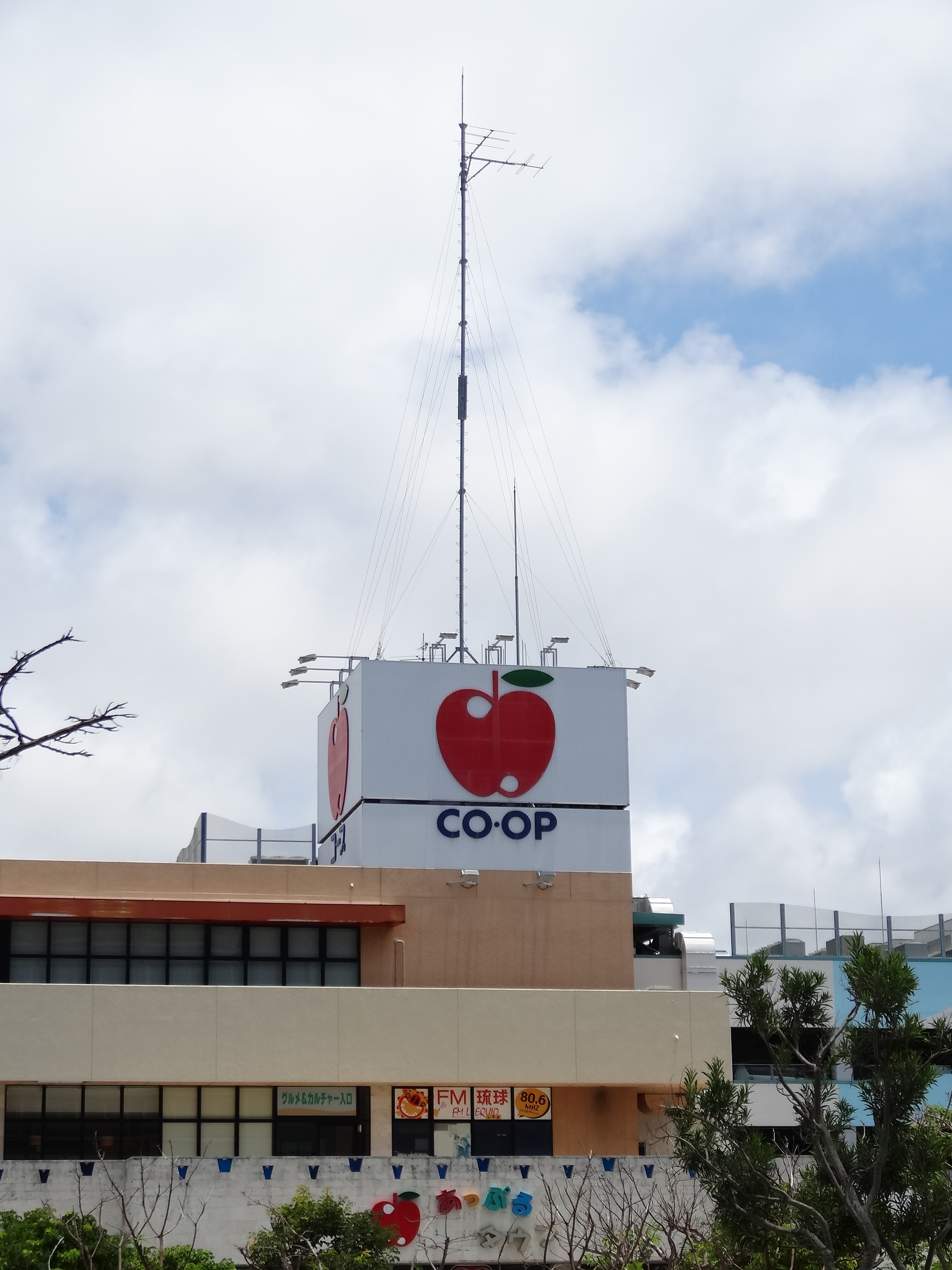 FM Lequio is a Community FM Radio Station in Naha City, Okinawa Prefecture, Japan.